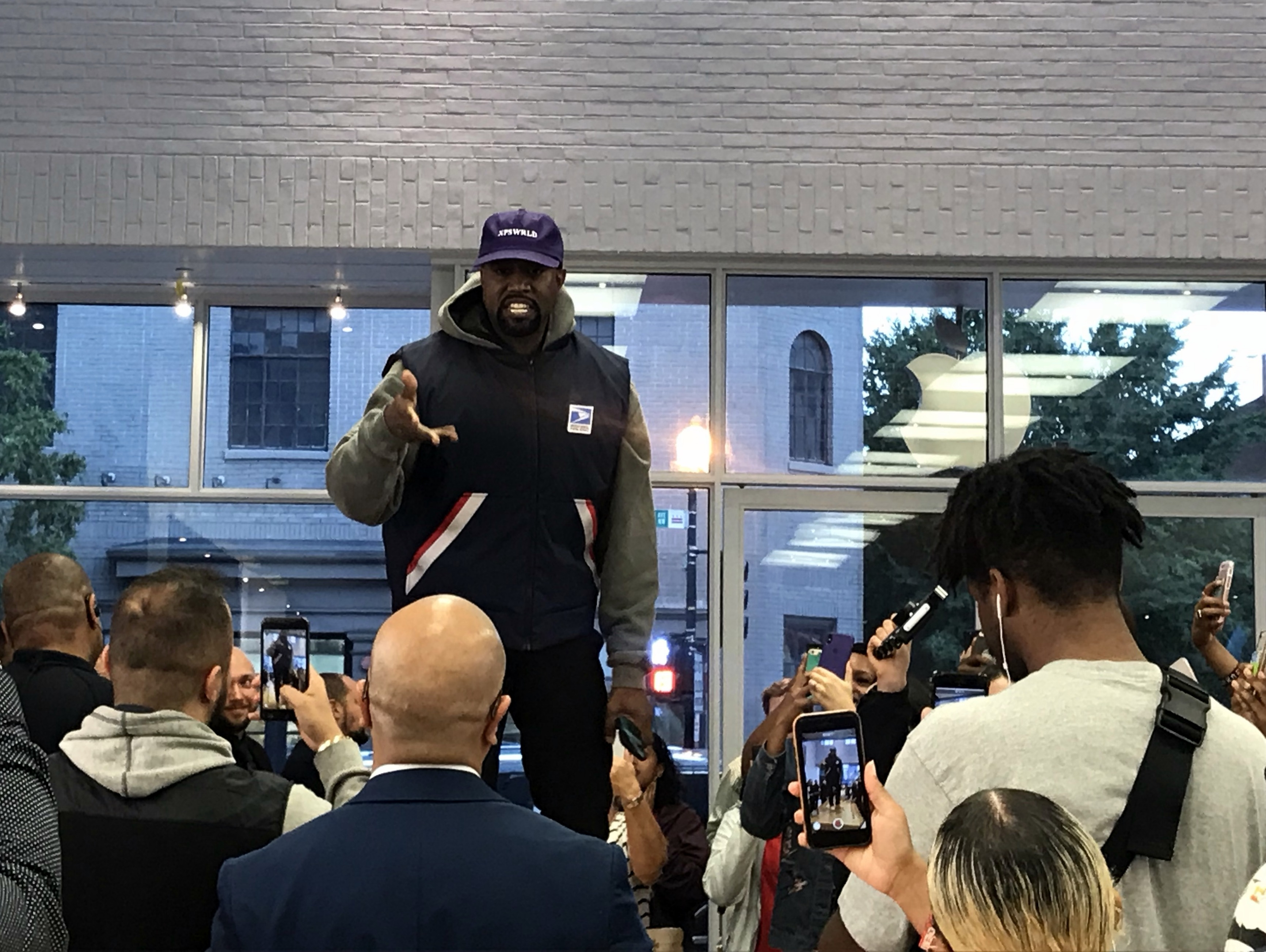 Kanye West makes an appearance at the Georgetown Apple Store